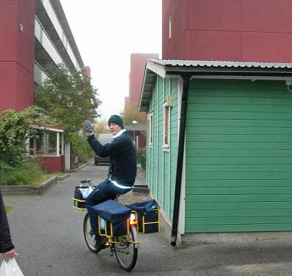 A friendly Swedish mailman in Husby, Stockholm.